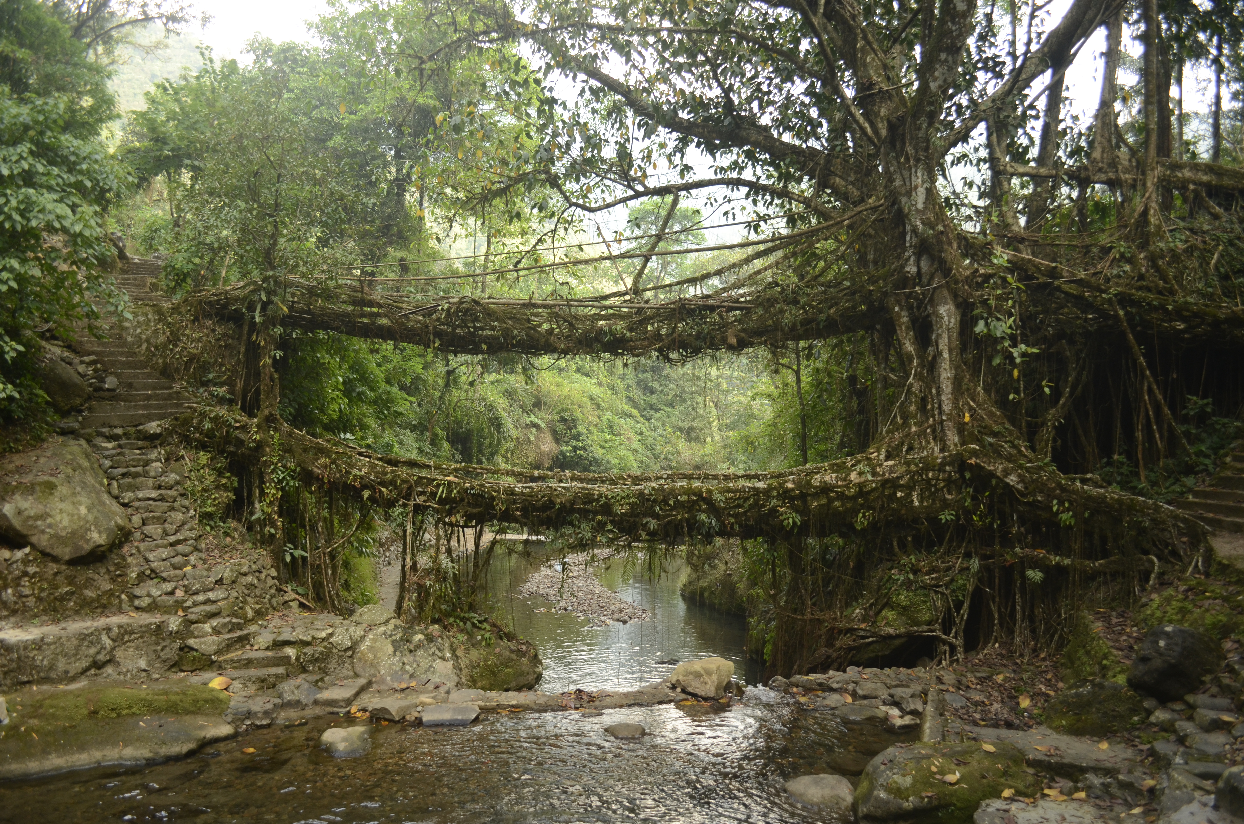 Double Decker Living root bridges of Nongriat village in East Khasi Hills district, Meghalaya_8